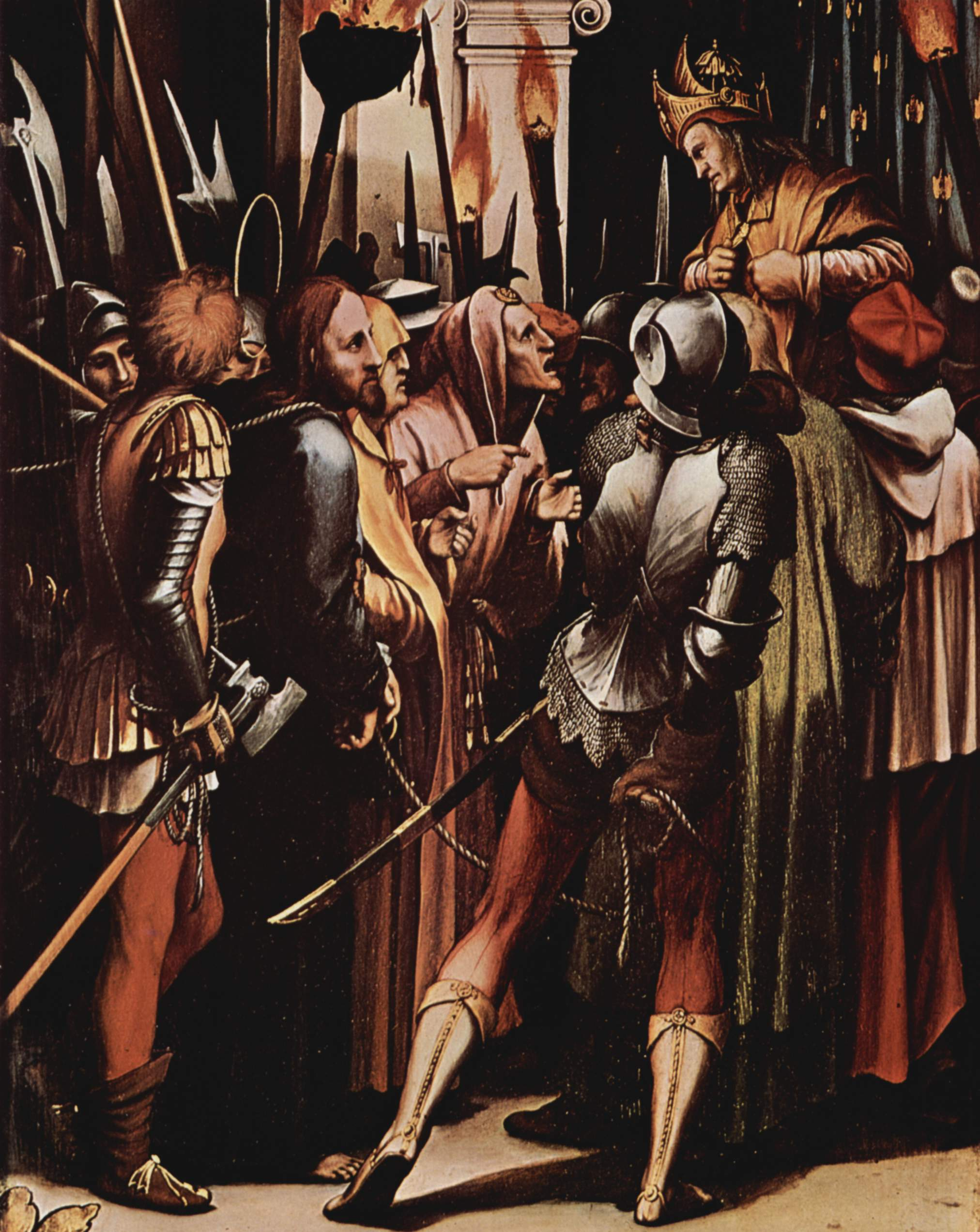 Detail image showing 3rd from left top scene in The Passion altarpiece